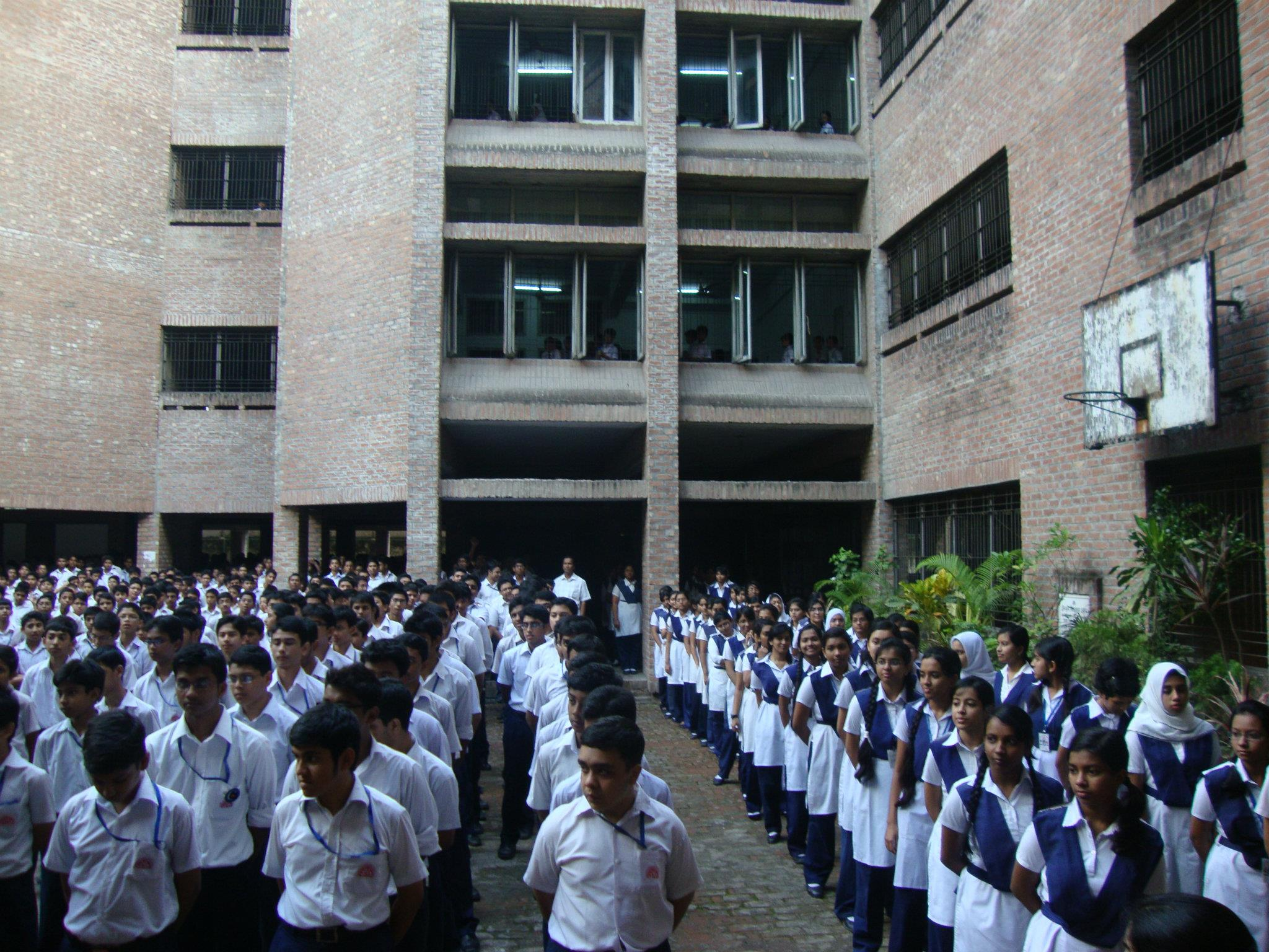 The school runs assembly on every workday in the morning. This picture represents the SSC Batch 2012 who joined the assembly for the last time on their last class.